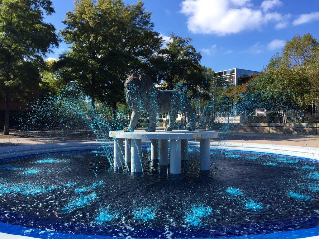 Monarch Fountain during Homecoming